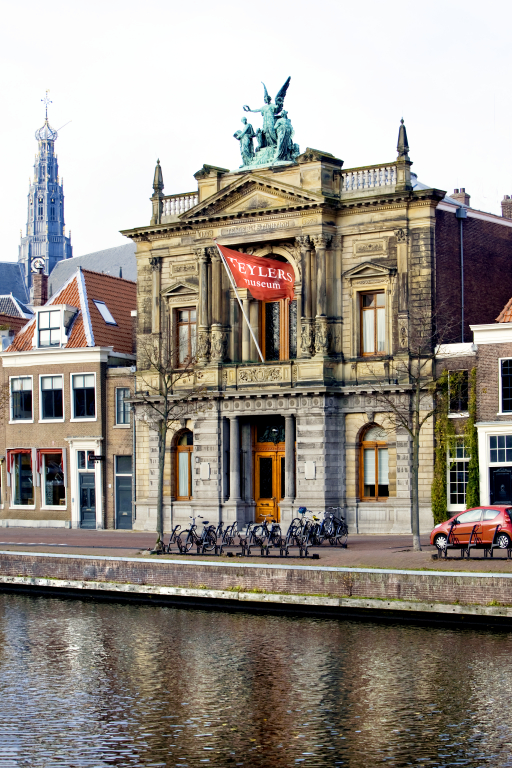 The facade of Teylers Museum, Haarlem, The Netherlands.